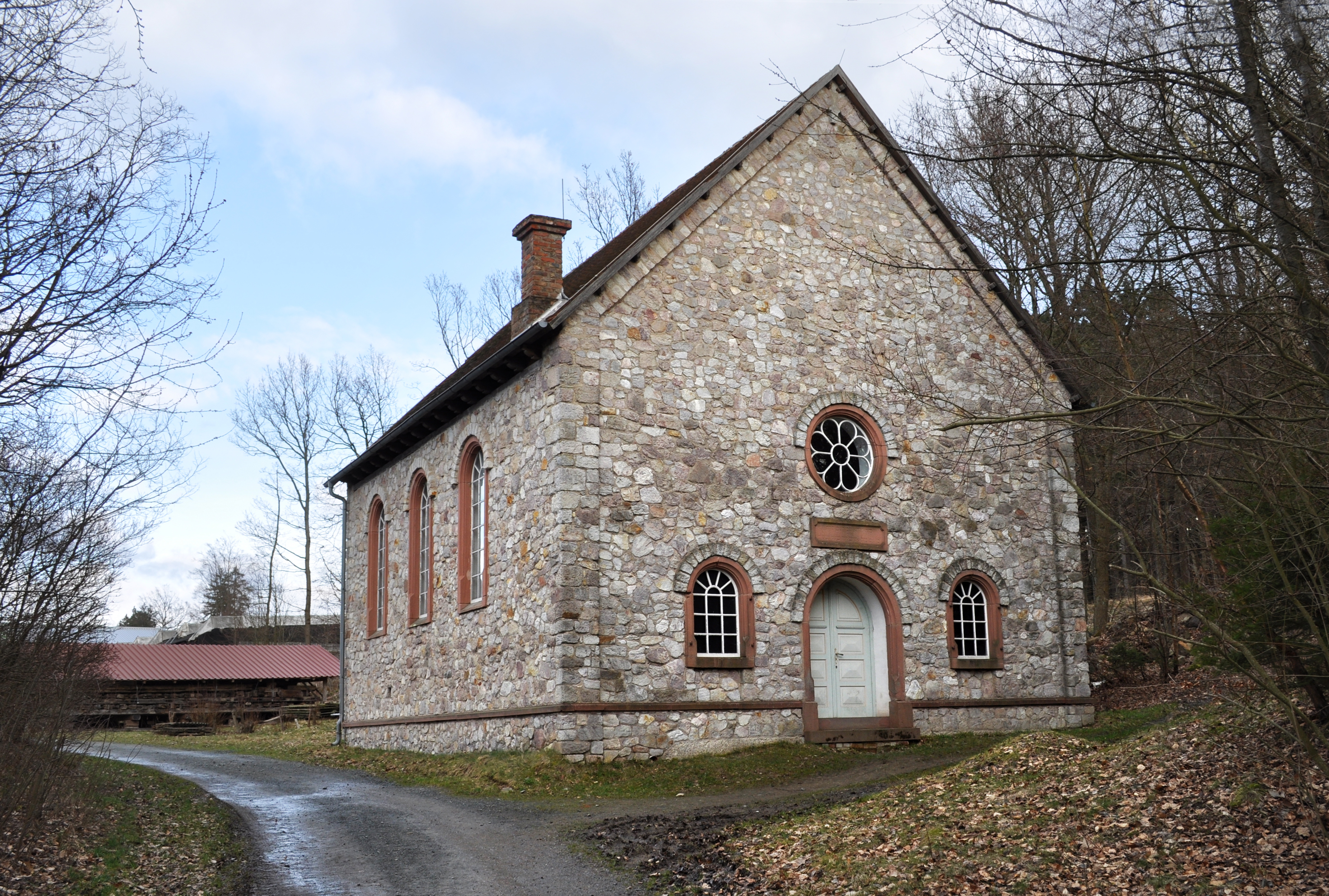 Synagoge from Groß-Umstadt, today part of Hessenpark